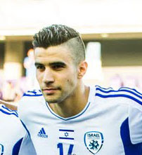 . Orr Barouch, UEFA U21s Football championships in Israel between Israel & Norway Photo By David Katz